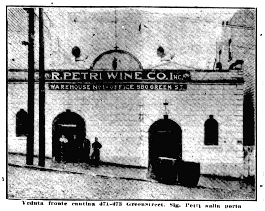 Warehouse storefront of the R. Petri Wine Company. Green Street.